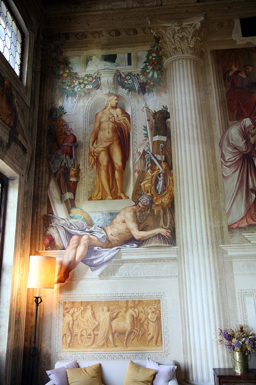 Villa Emo. From the east wall of the hall. Frescoes by Giovanni Battista Zelotti.